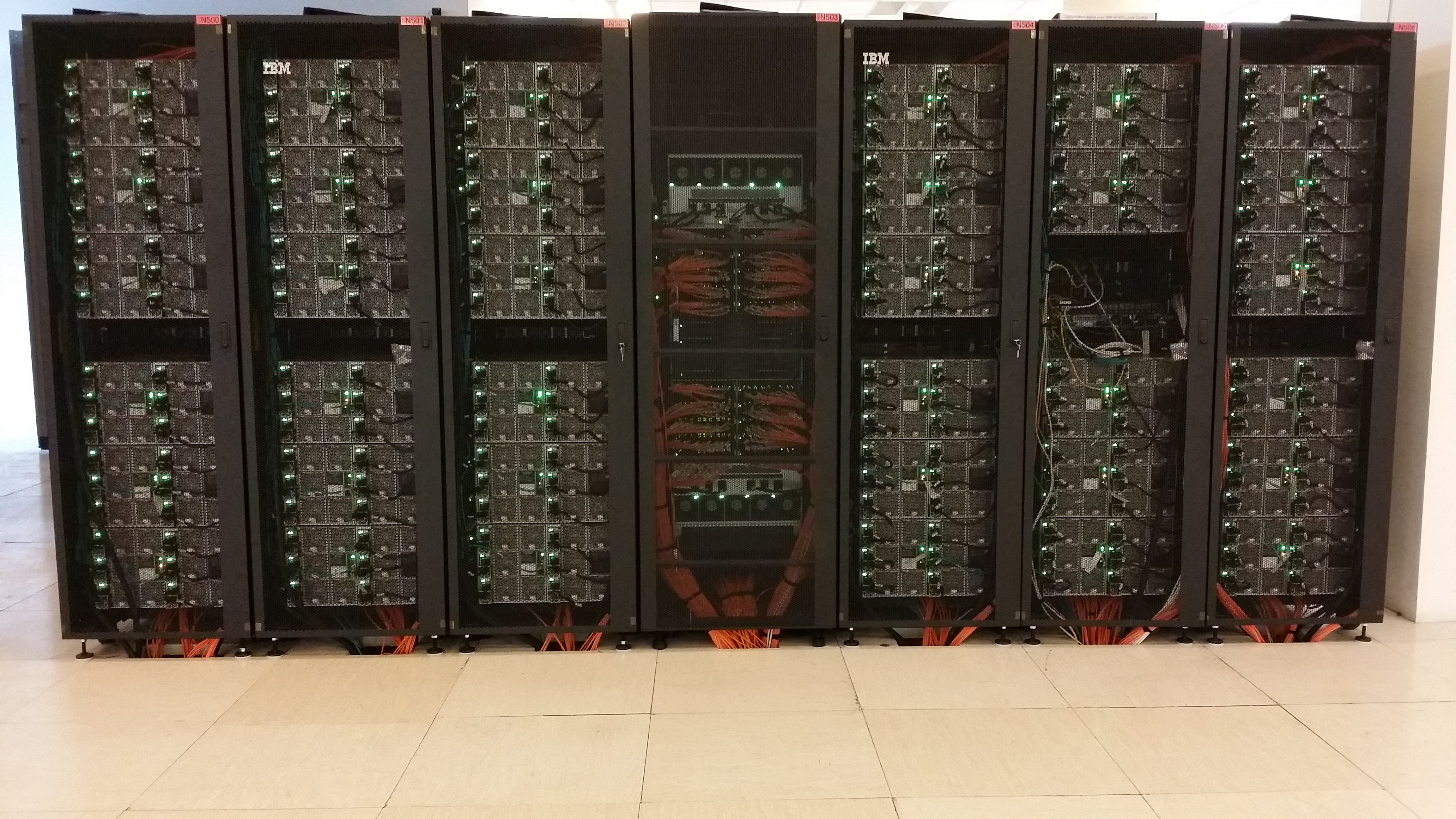 The Galileo supercomputer rack in Cineca